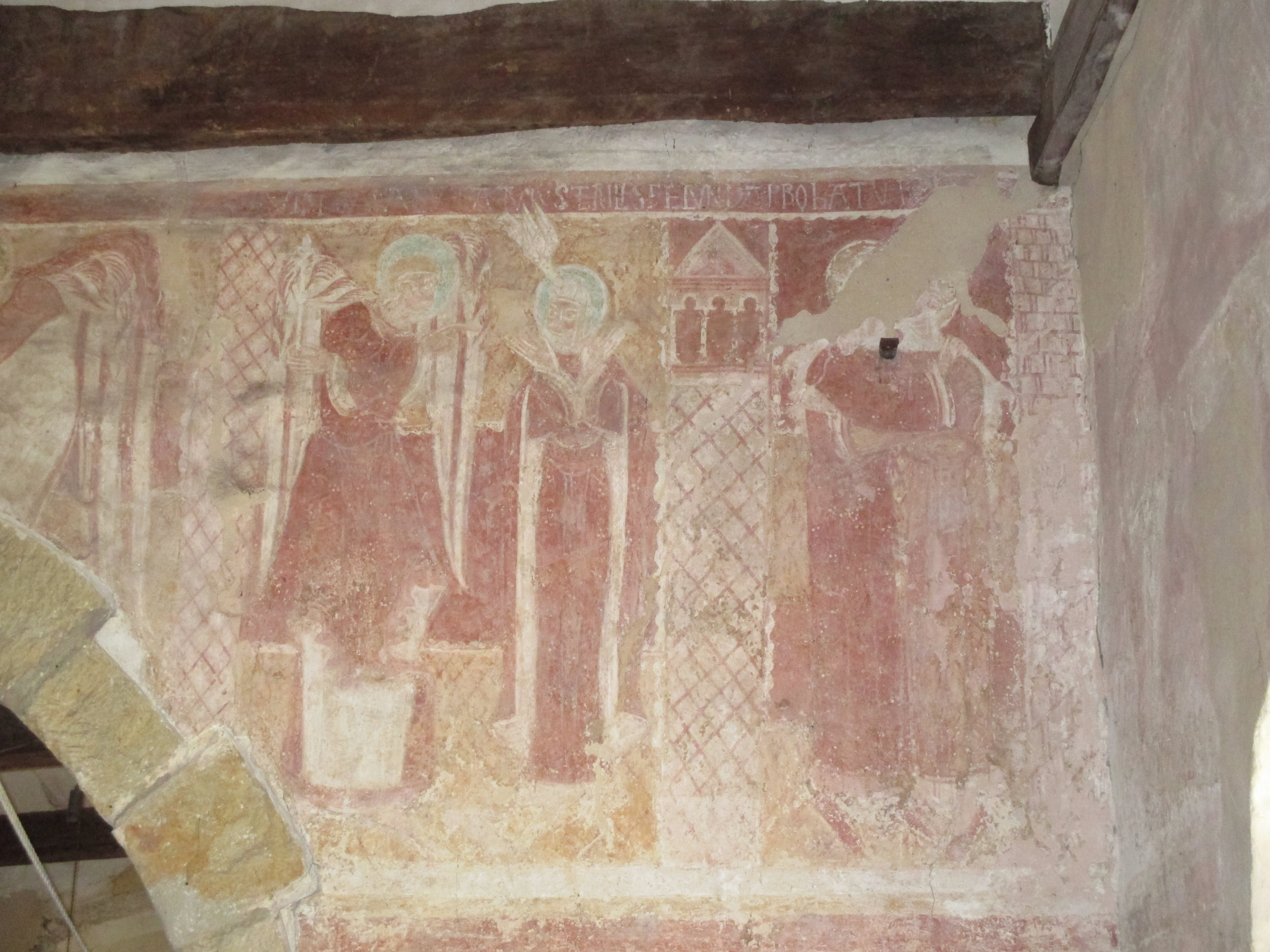 12th-century frescoes in St Botolph's Church, Hardham, West Sussex.